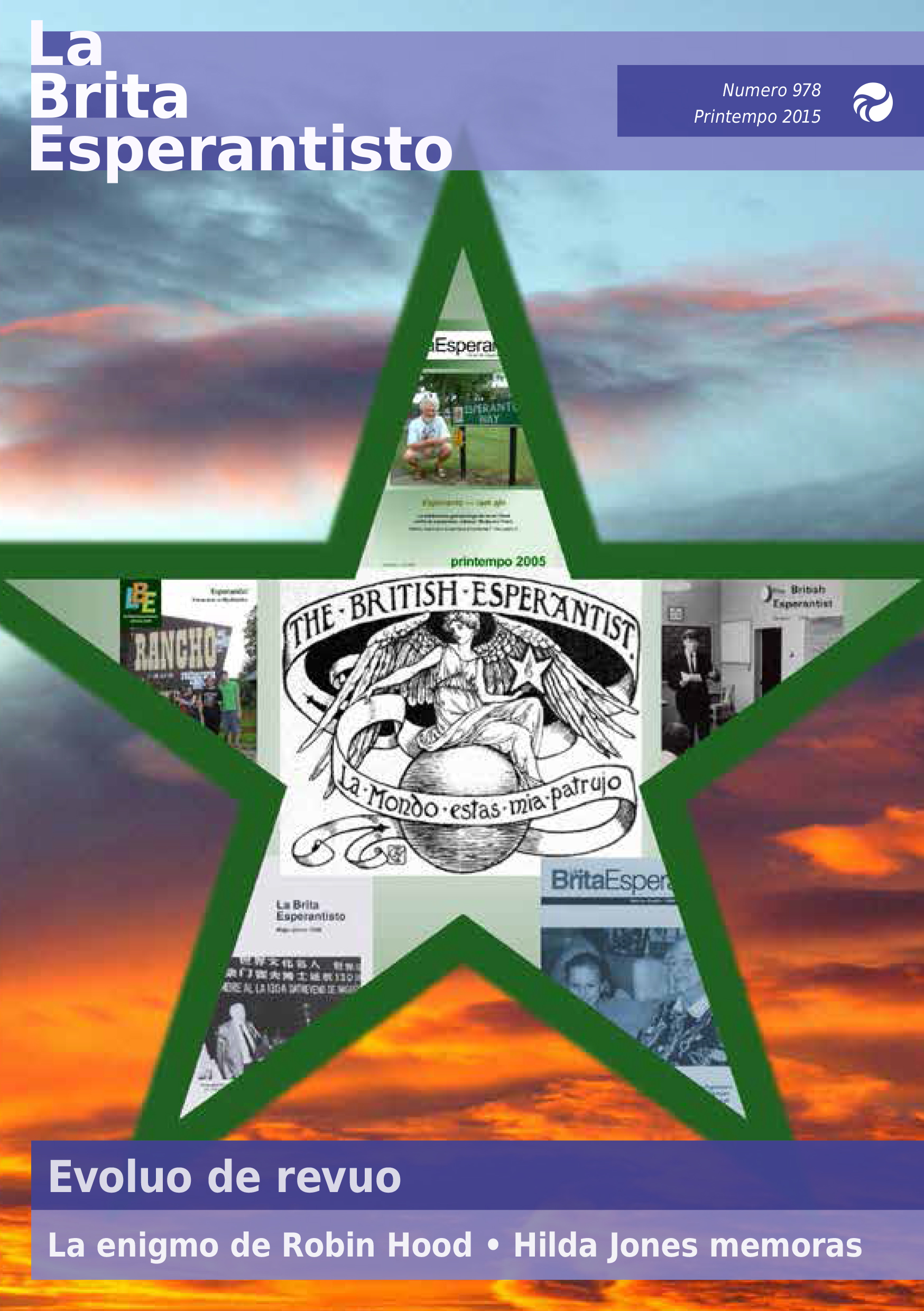 Cover page of “La Brita Esperantisto”, Spring 2015